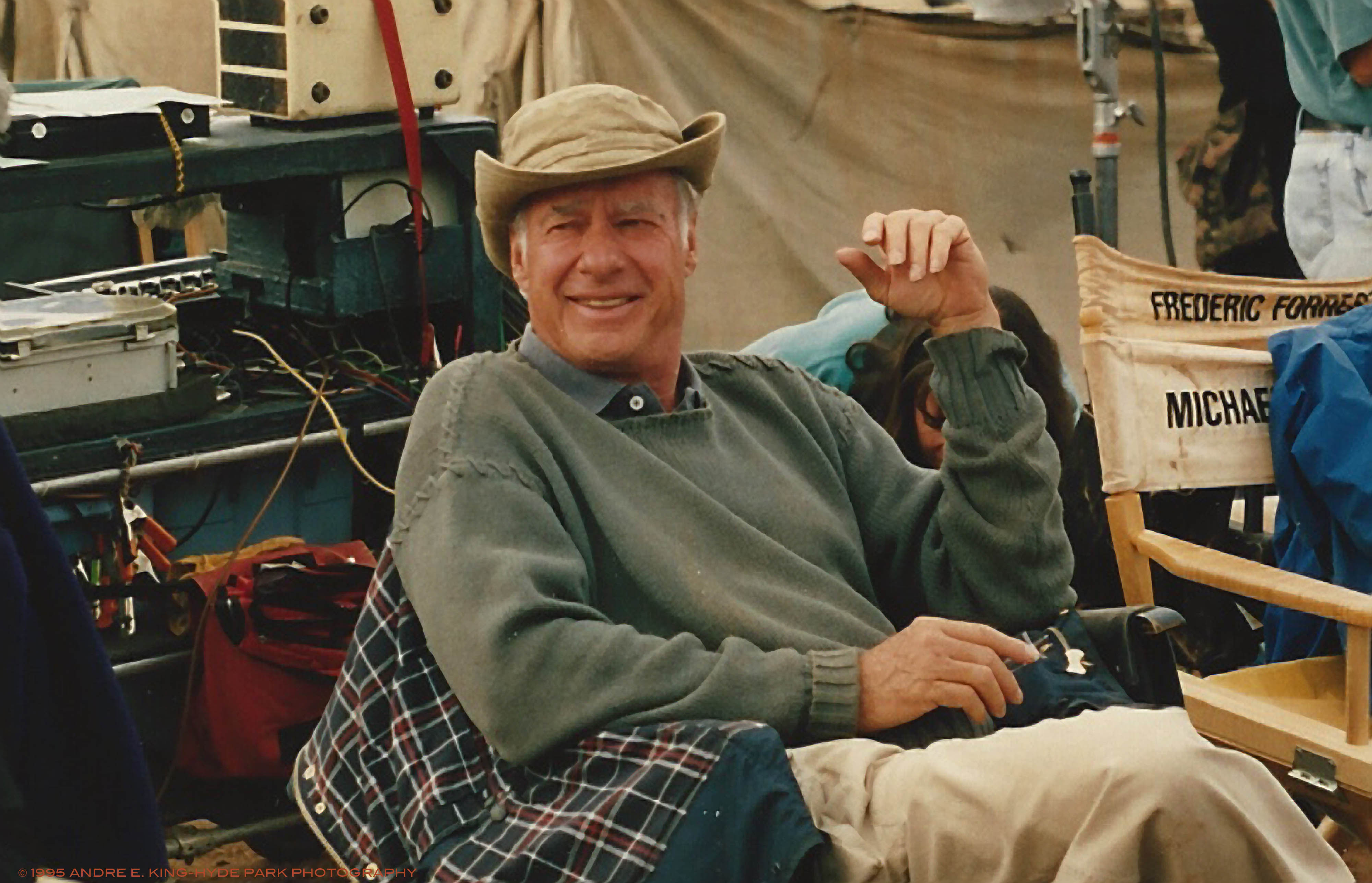 American director John Frankenheimer relaxing between camera setups on the set of the Turner Film Production "Andersonville".